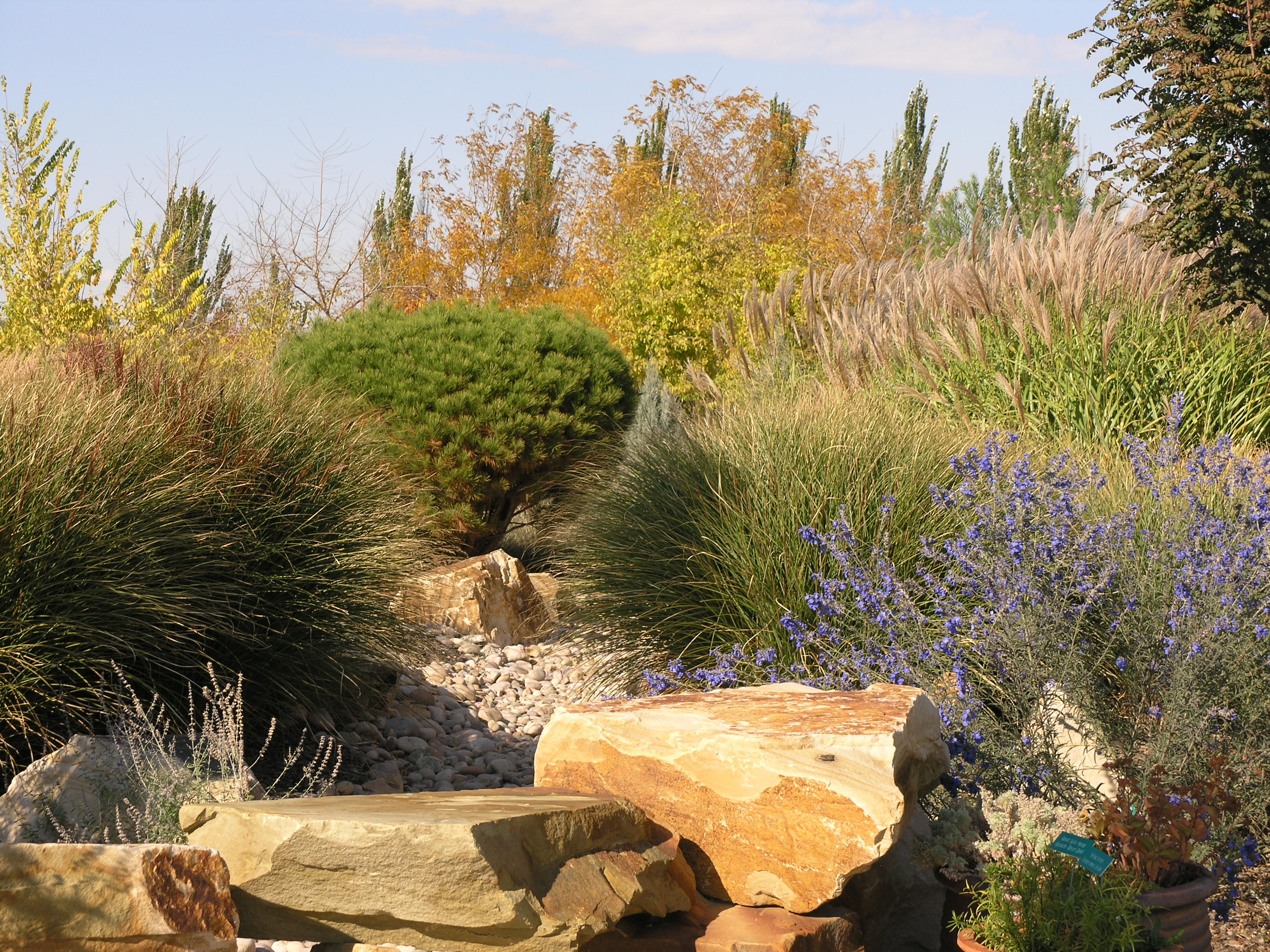 Layers of waterwise plants create a lush, high mountain landscape.